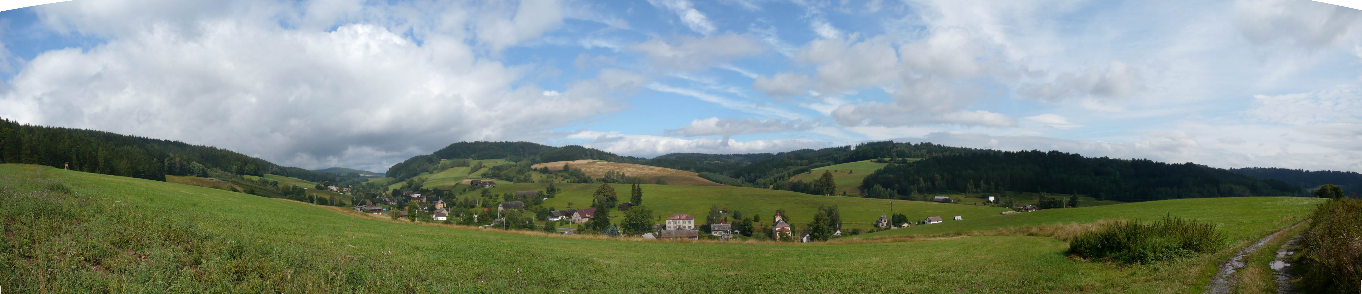 village Rokytník - panoramatic picture